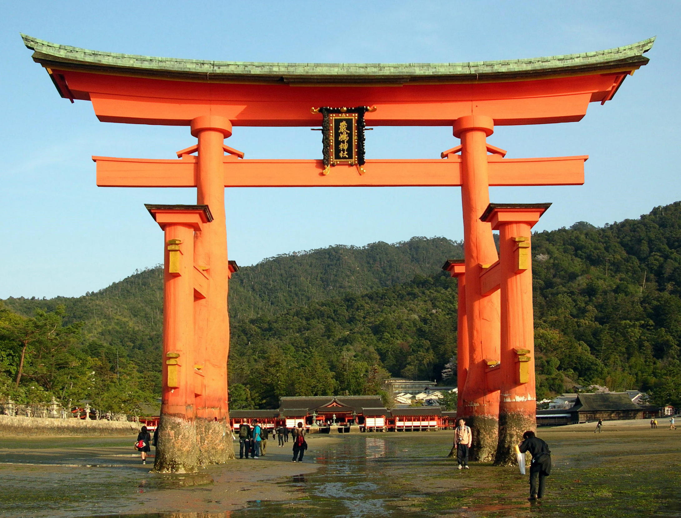 Torii and Itsukushima Shrine in background, Miyajima Island, Hiroshima Prefecture, Japan